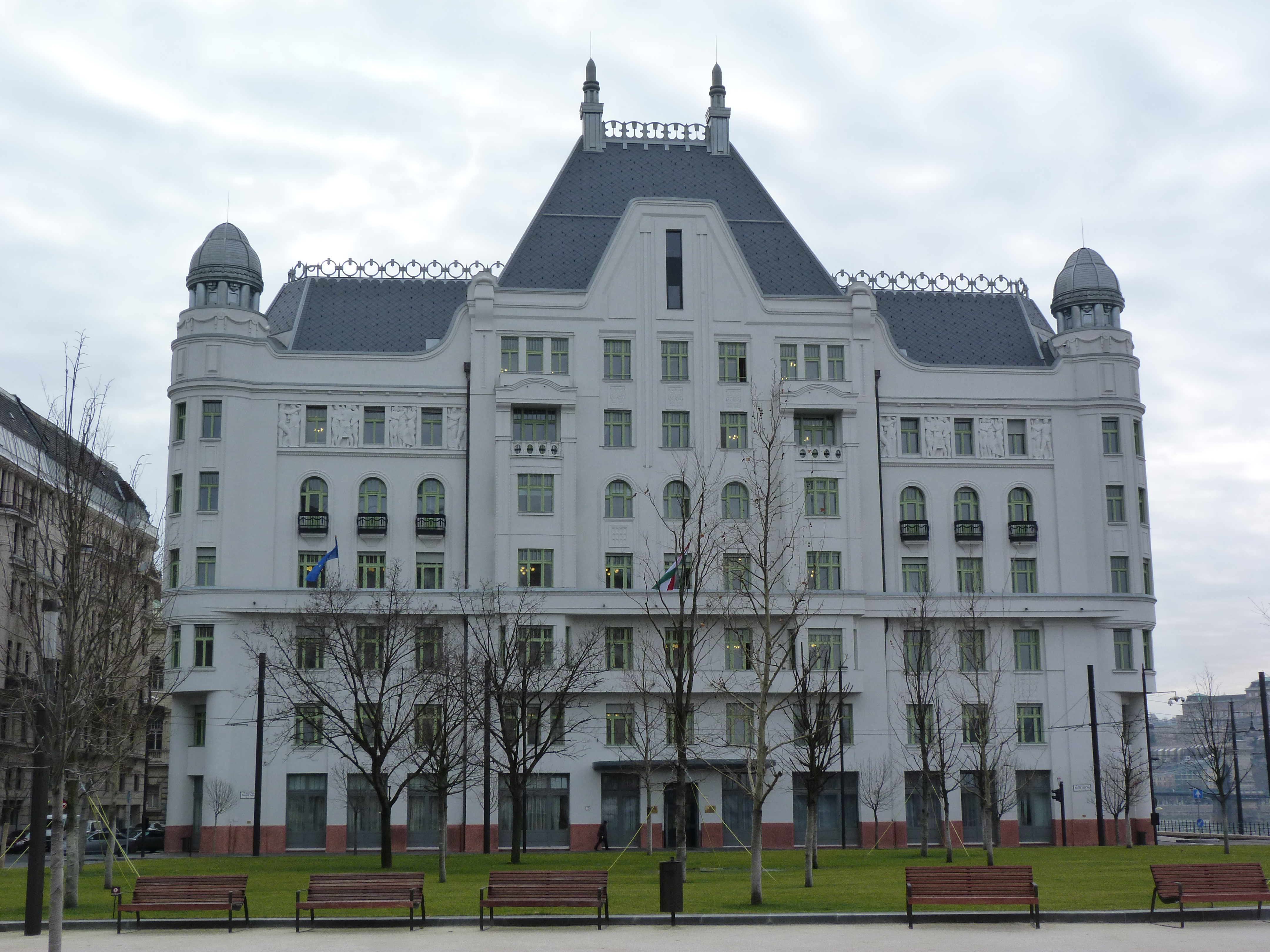 Office Building of P.M. of Hungary. - 4., Kossuth Lajos Square, District 5th, Budapest